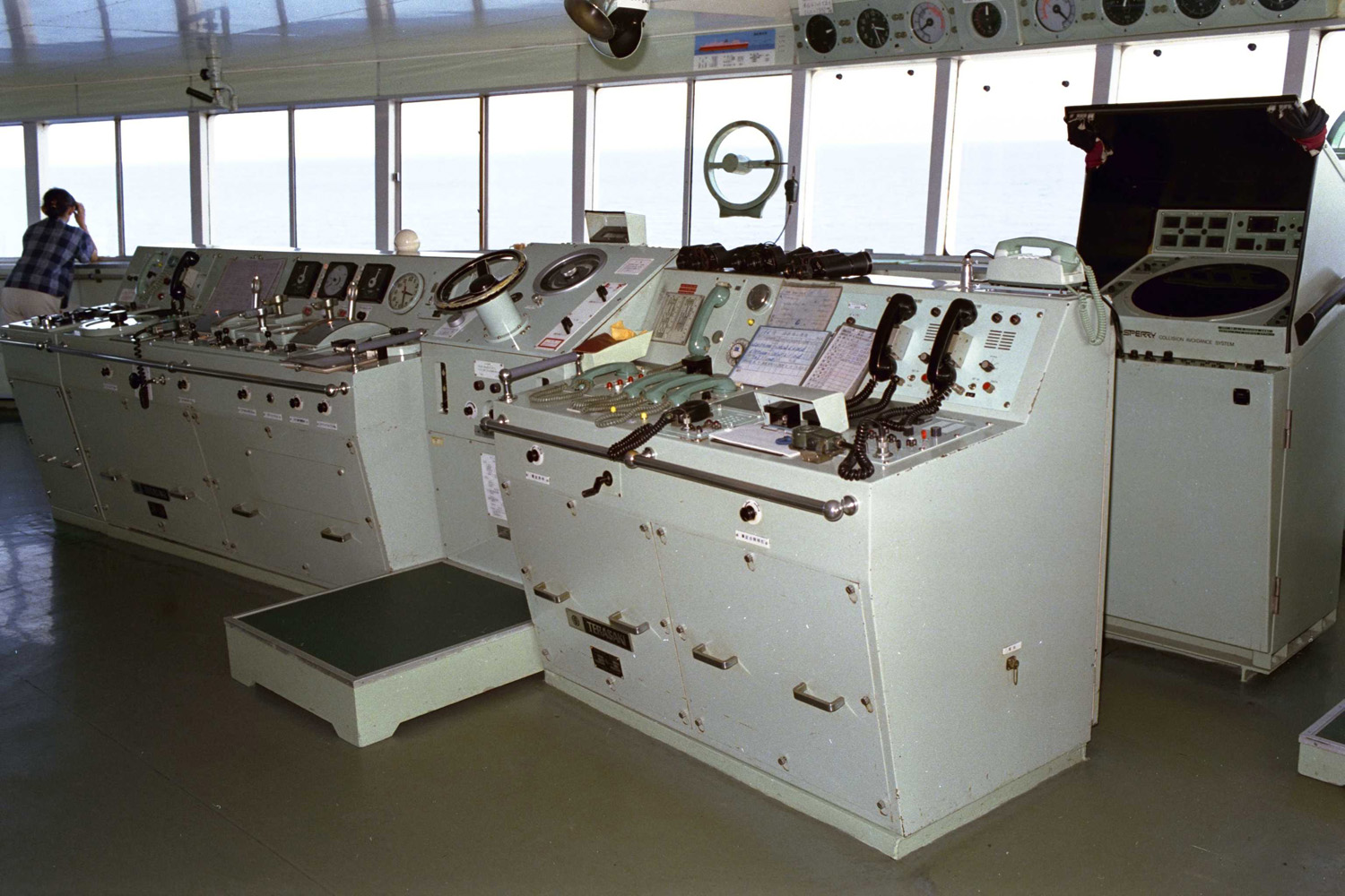 MS HIYAMA MARU2 Wheel house Steering wheel became smaller than MS OSHIMA MARU2,MS HITAKA MARU2 and MS TOKACHI MARU.